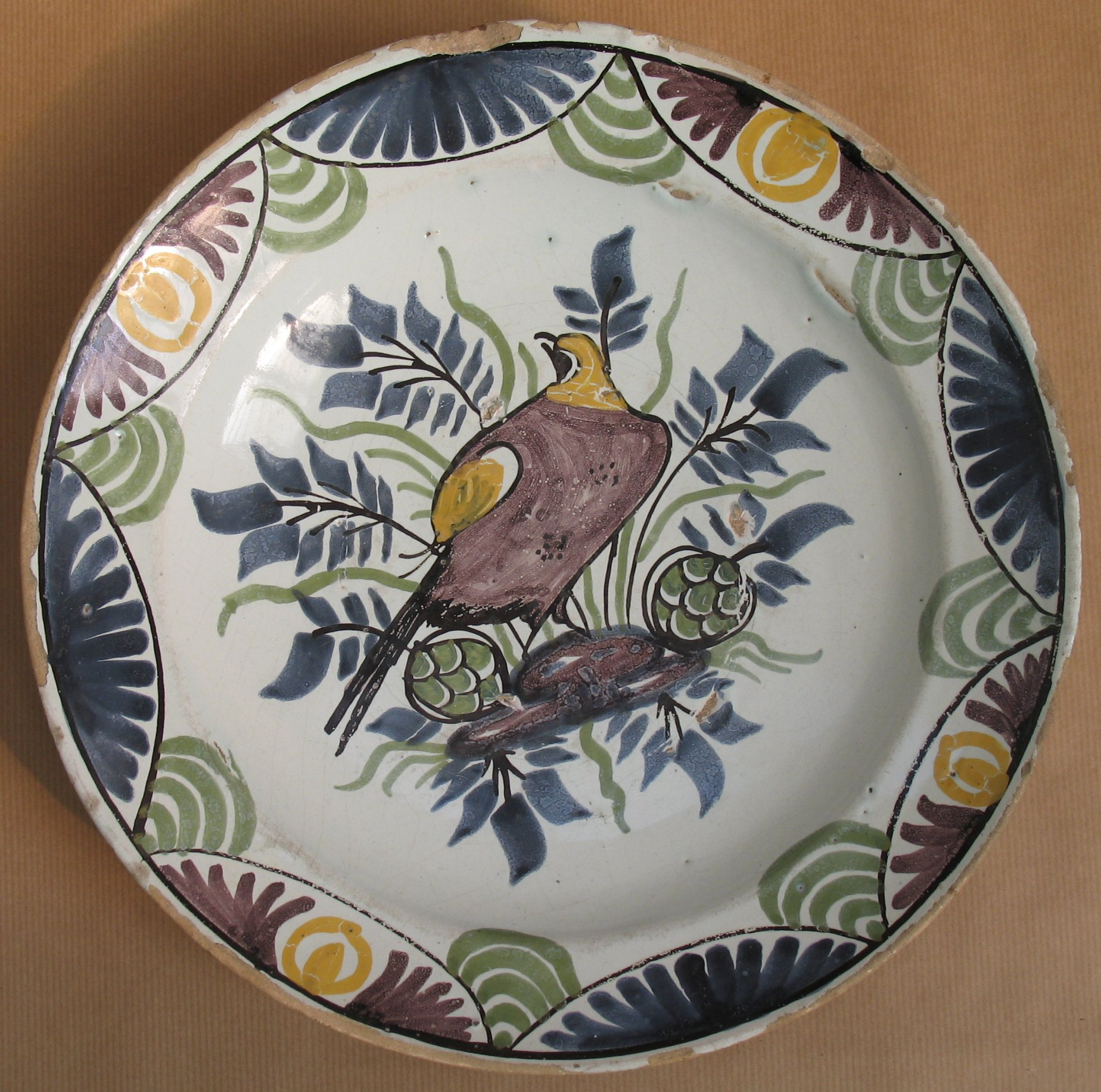 Plat de la manufacture Desmoutiers (18è).